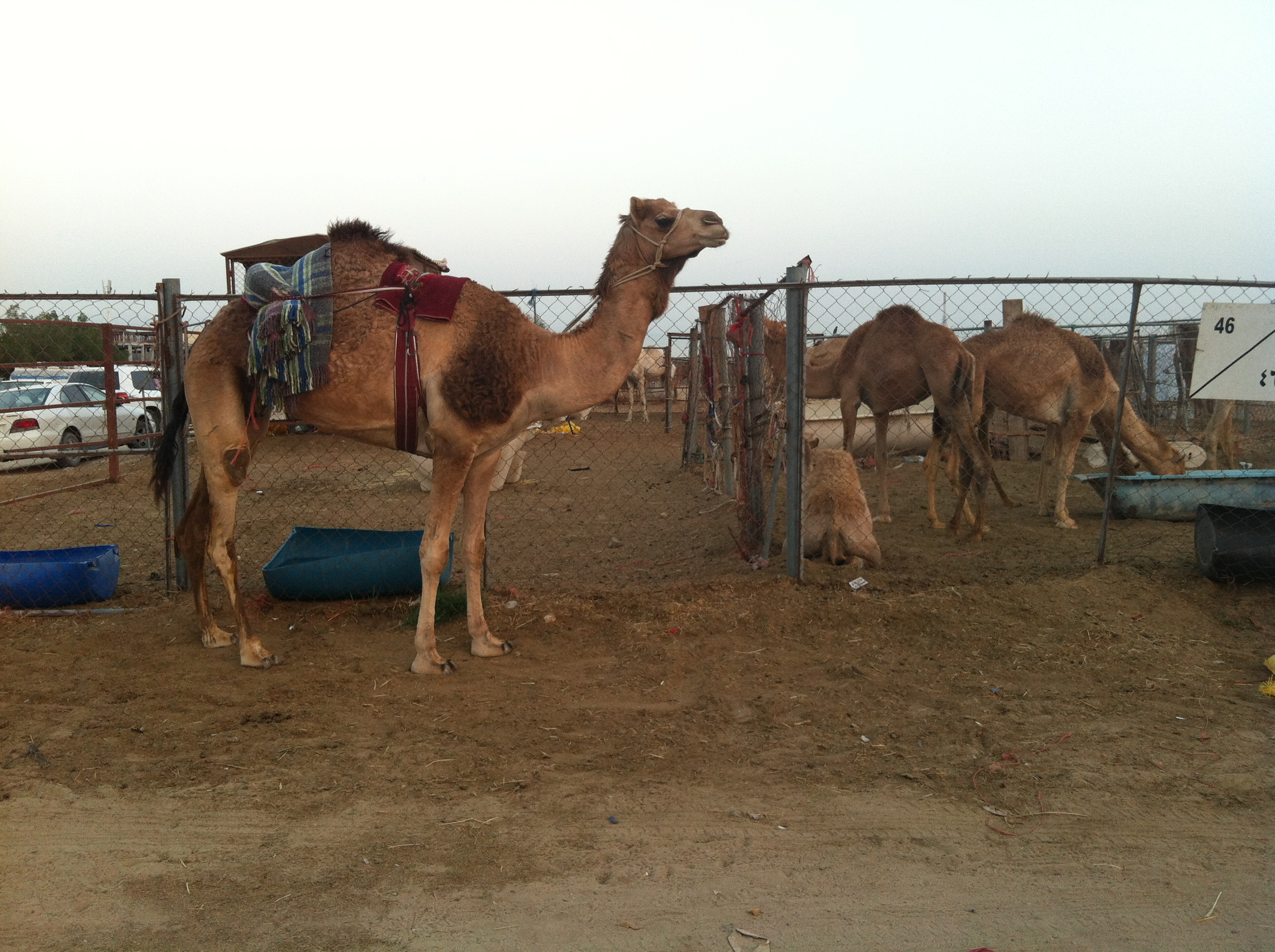 A camel farm in Qatar.